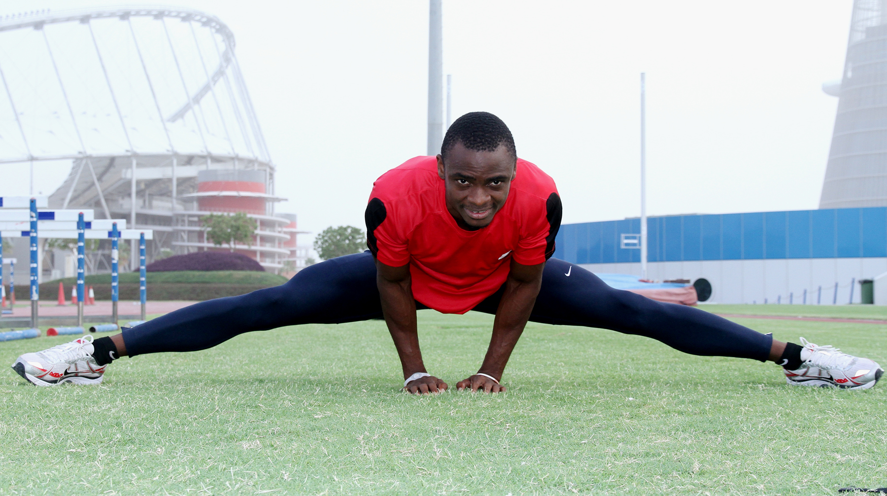 Qatari sprinter Femi Seun Ogunode is engaged in a training session at the Khalifa International Stadium. Pic by Doha Stadium Plus